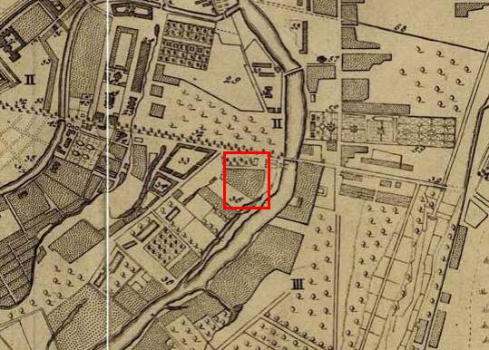 Location of territory of future Ostrovskogo square on the 1737 year map